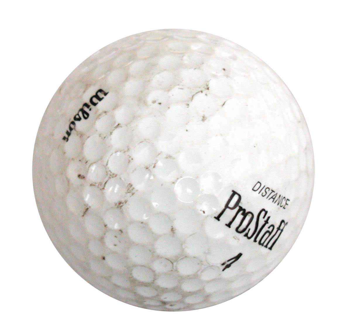 golf ball